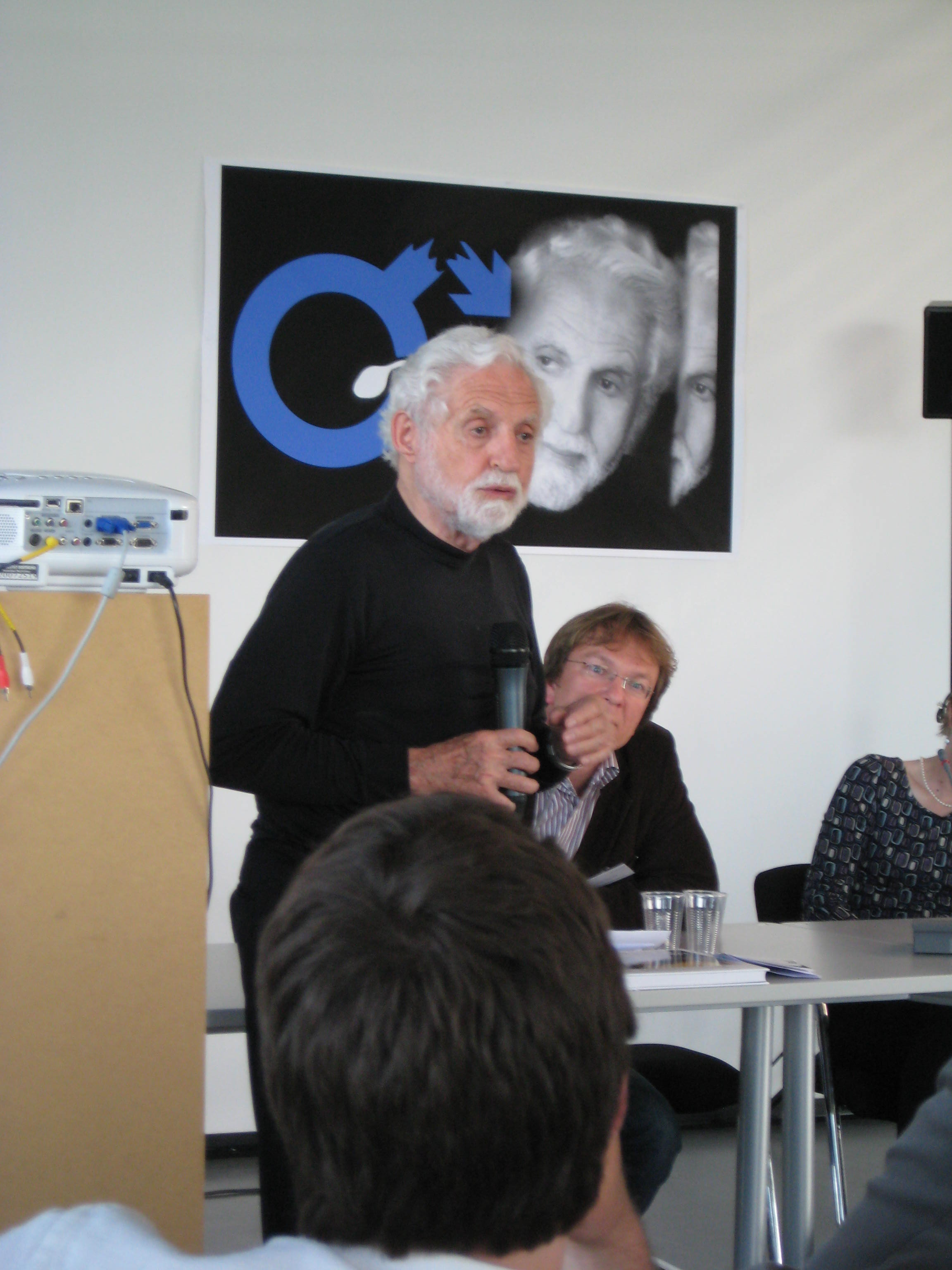 International Symposium In Dortmund Pays Tribute To Carl Djerassi Carl Djerassi’s literary work was the focus of a 3-day international symposium at Dortmund University, April 23-25. The university conferred an honorary doctorate on Djerassi not for his scientific achievements as a chemistry professor at Stanford, but for his more than 25 years as a novelist and playwright. Numerous panelists, many of them former colleagues, examined Djerassi’s major themes: interdisciplinary questions between culture and the natural sciences, transatlantic cultural phenomena as well as the legacy of German-language exiles in the United States. The symposium was hosted by American studies Professor Walter Gruenzweig and sponsored by the U.S. Embassy and Consulate General Duesseldorf.